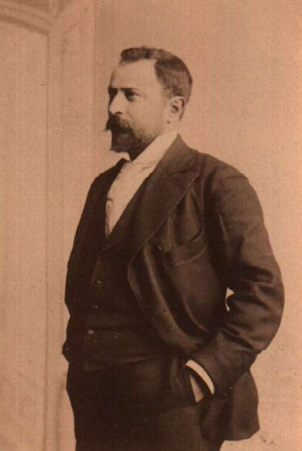 Aleko Konstantinov (1863-1897)